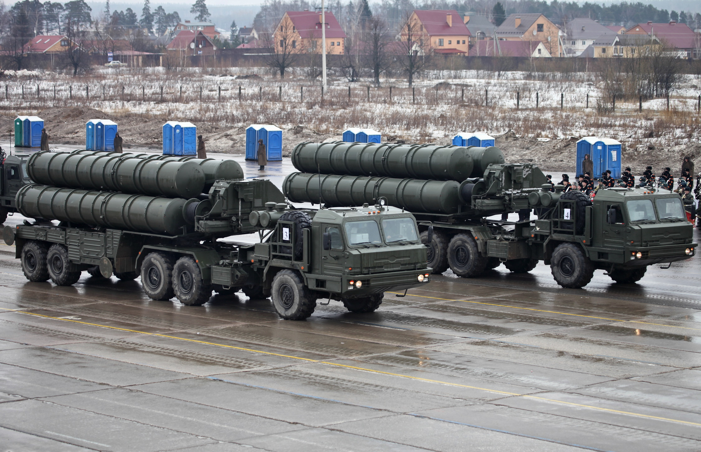 S-400 Triumf air defence system transporter erector launcher